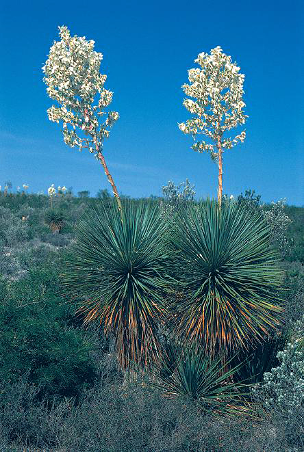 Yucca thompsoniana